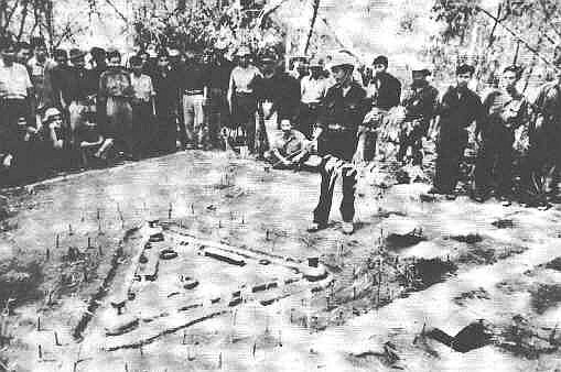 Viet Cong troops study and rehearse attack on sand table.